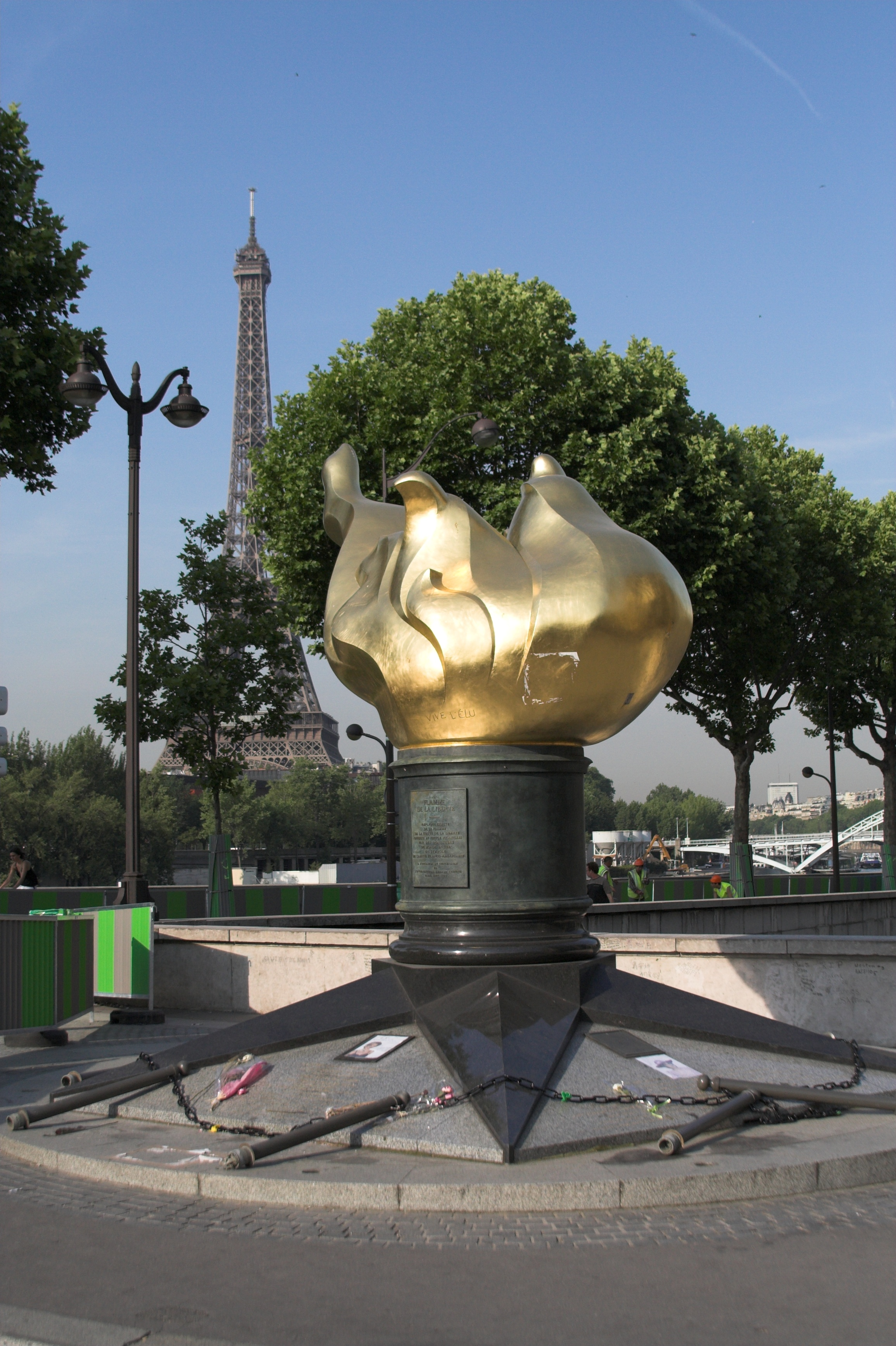 Monument at the bridge of Alma(Paris, France)